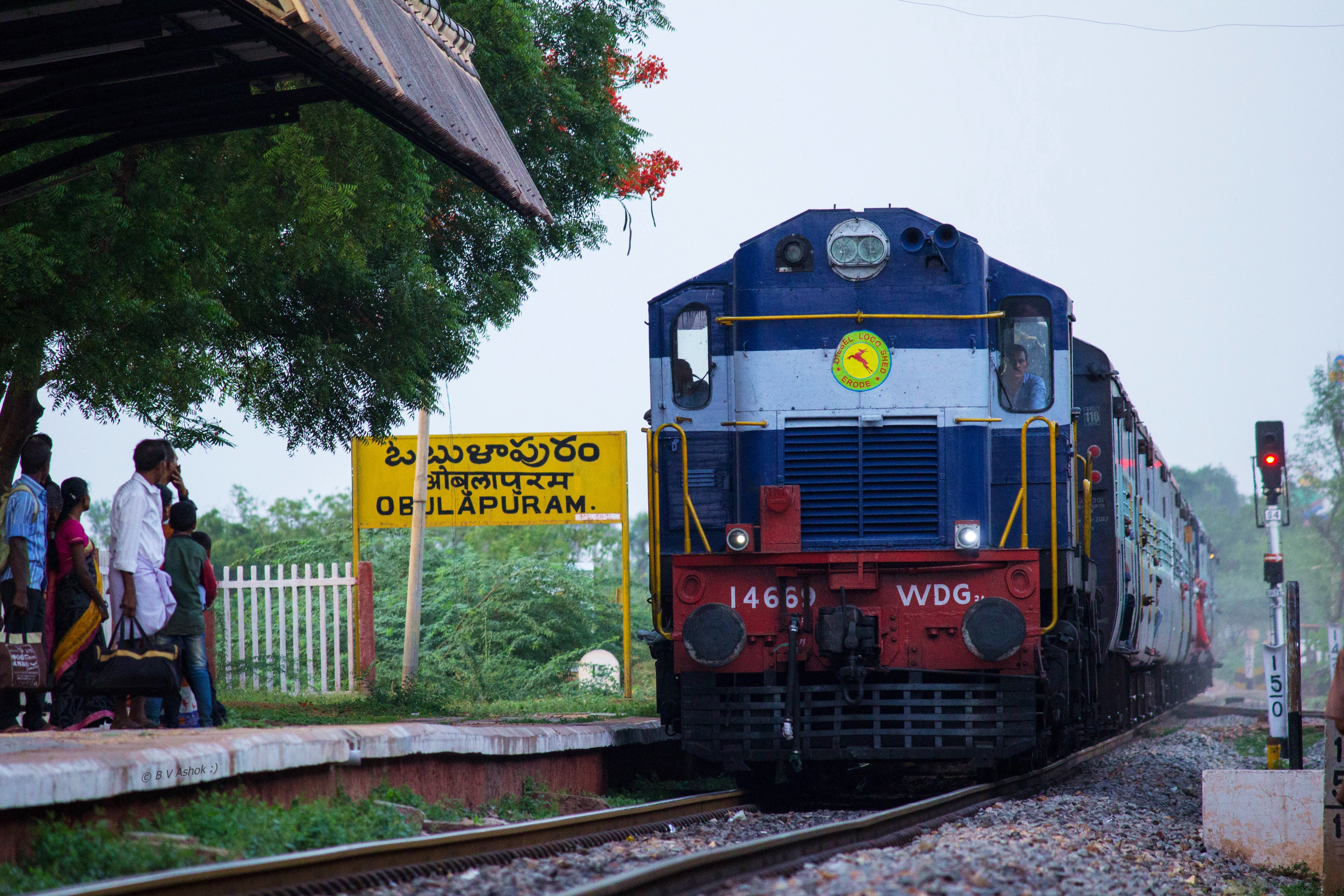 ED WDG-3A 14669 coming to lone platform of Obulapuram for its scheduled halt with 56910 Hosapete - Bangalore city Passenger....